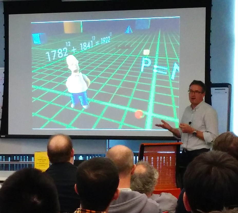 Jeff Westbrook presents a talk on the math in The Simpsons.